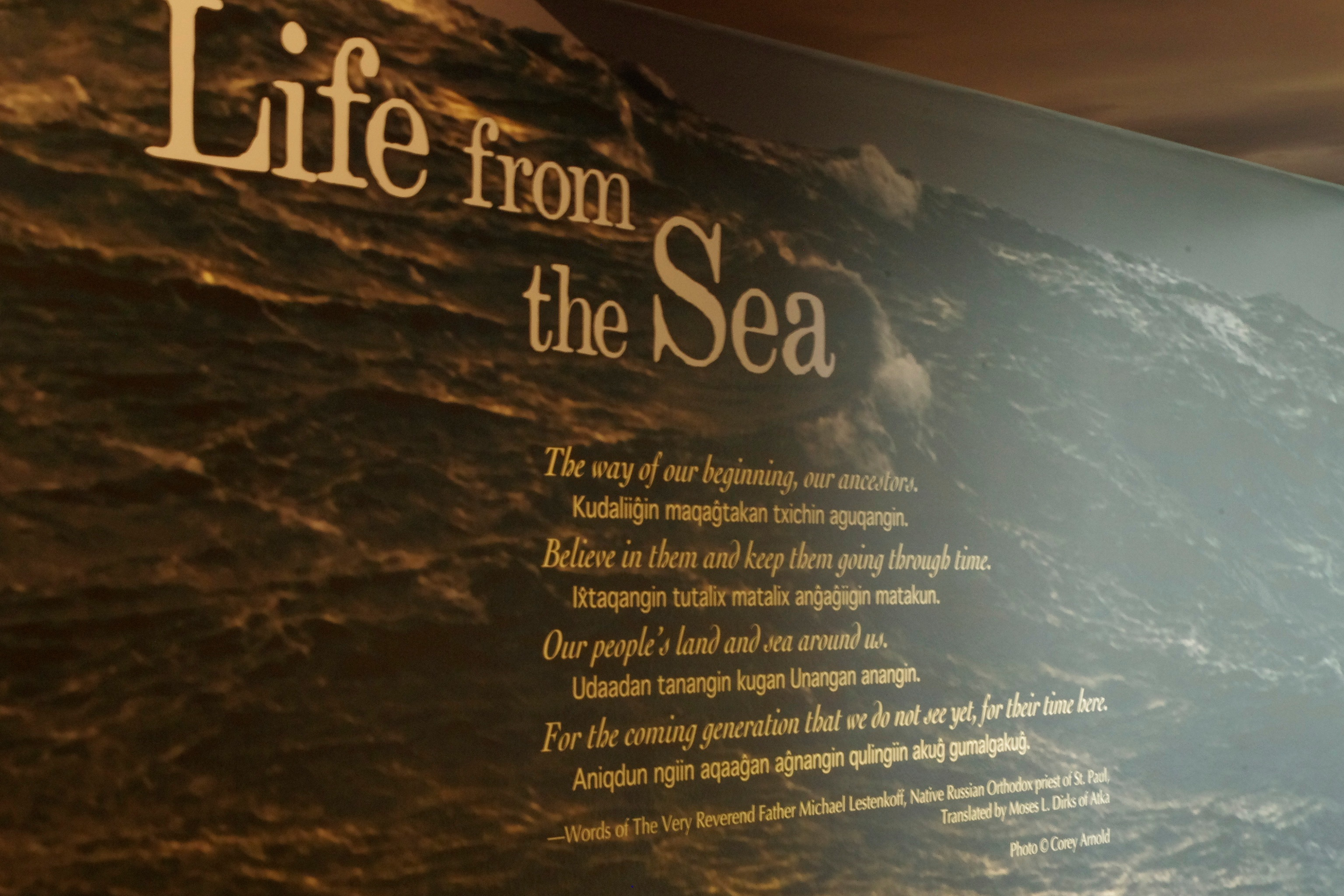 Unangam language on sign in Museum of the Aleutians exhibit